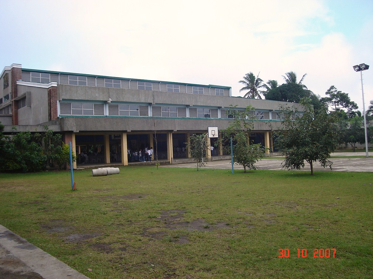 The gymnasium of the Rogationist College of Silang, Cavite, Philippines.